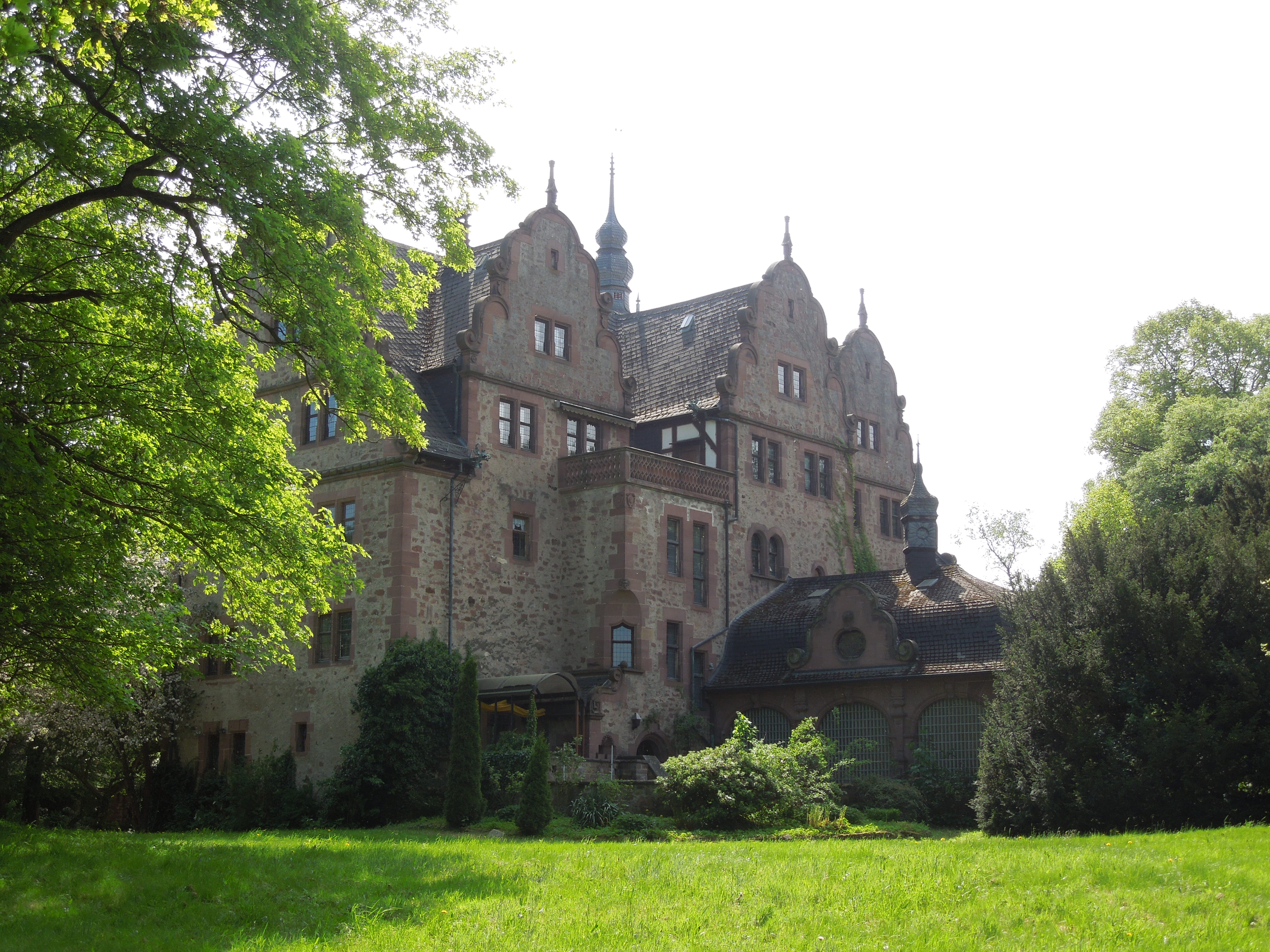 Schloss Dillich, northwest view from the park